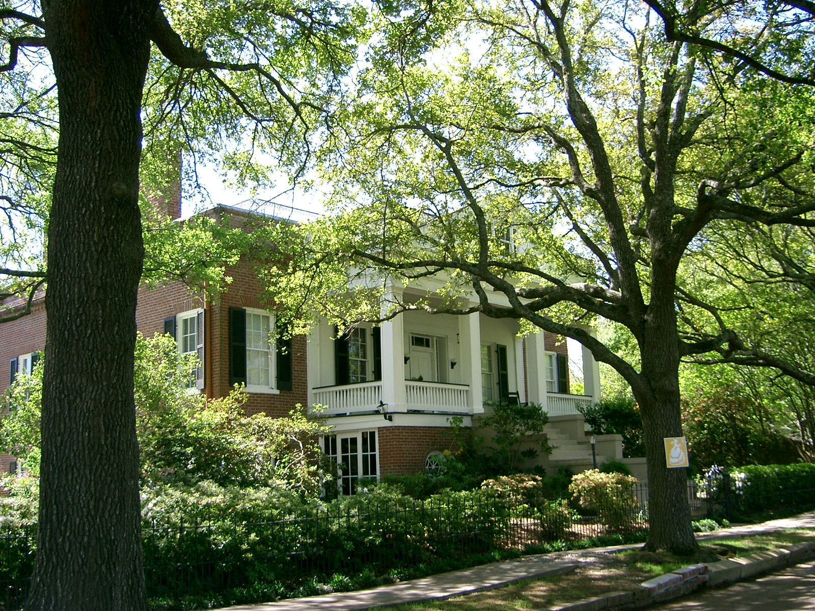 Historic House at Natchez Mississippi self made PRA The Parsonage